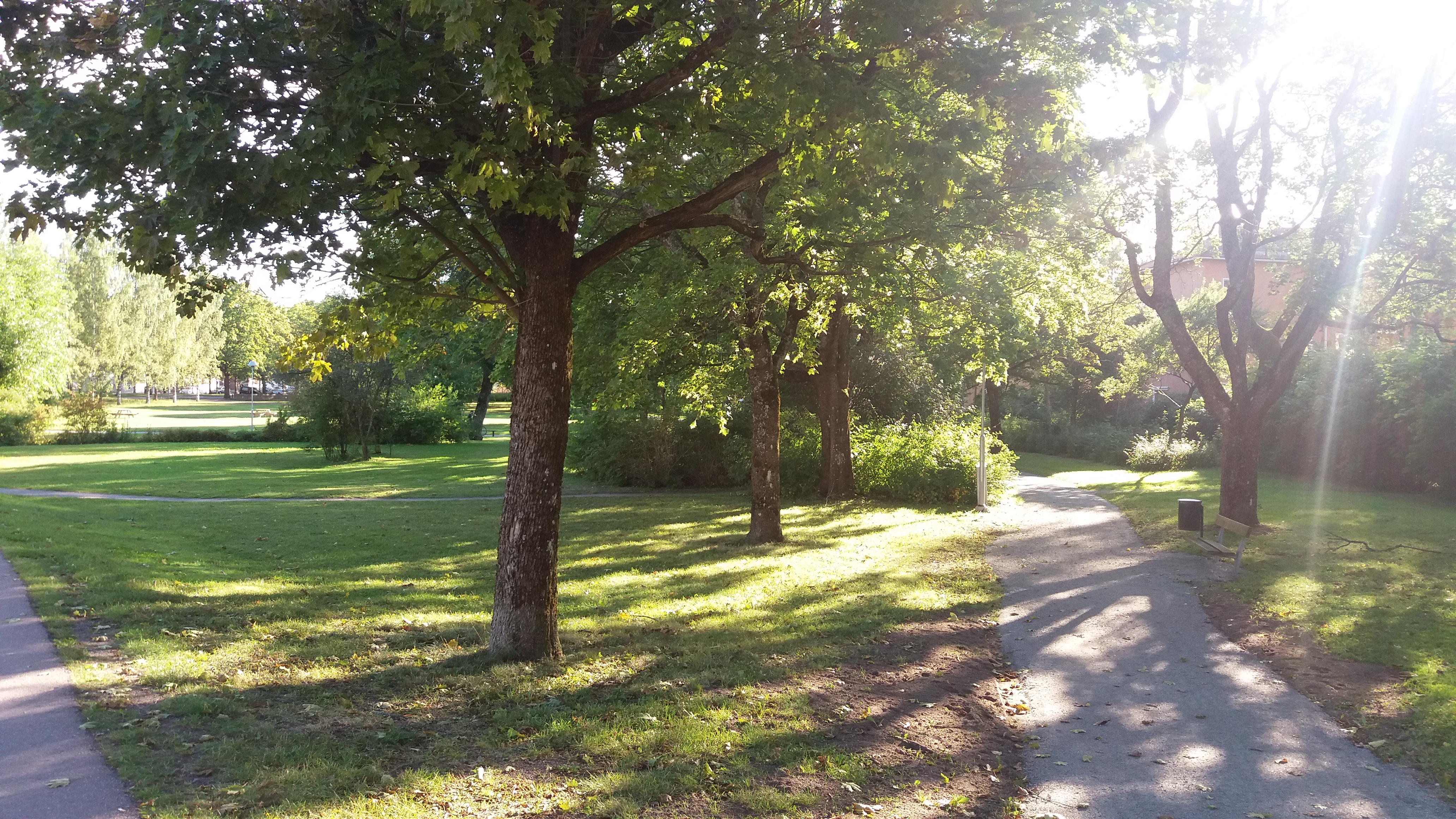 Batteriparken, Uppsala